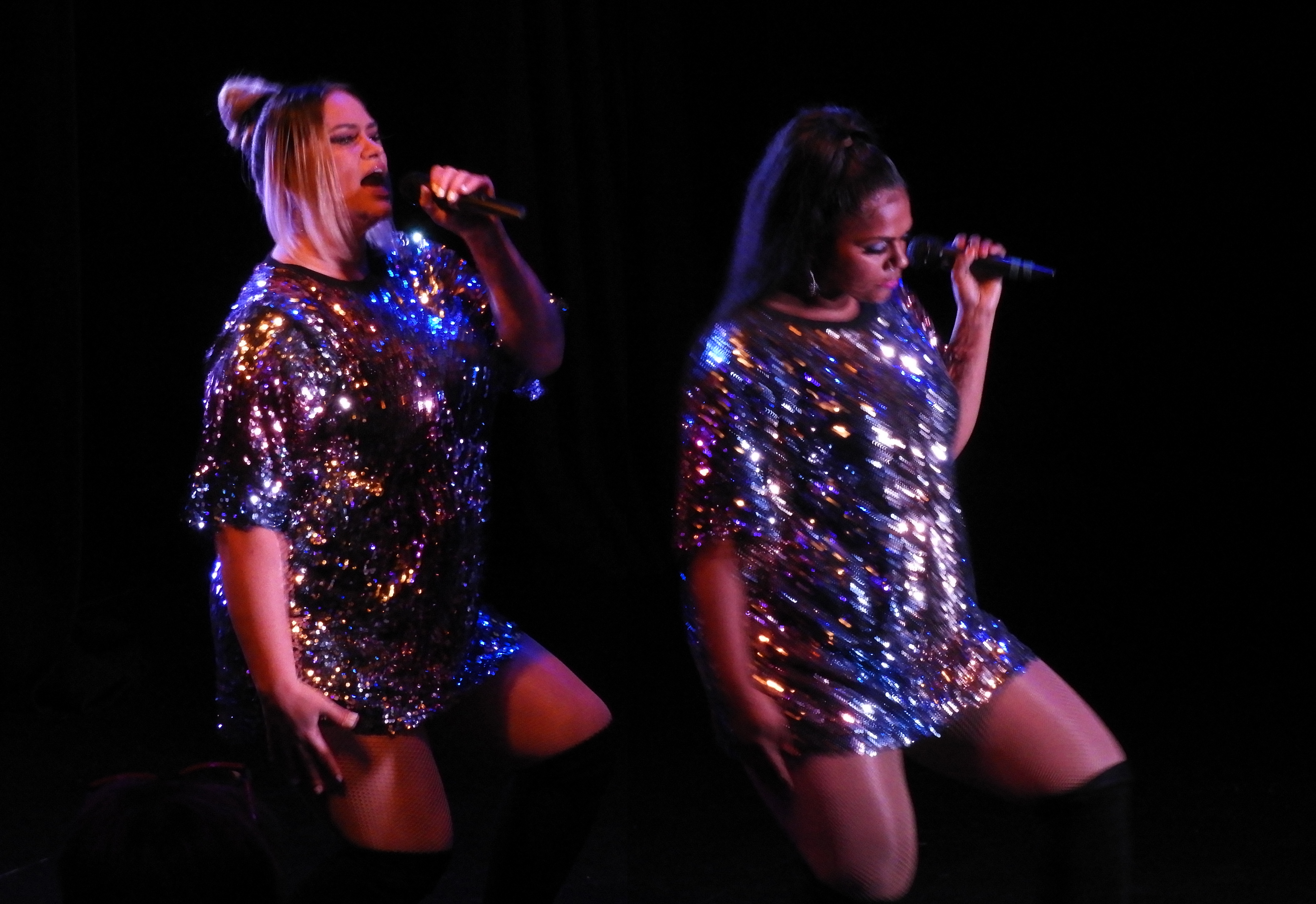 The Merindas perform at Tandanya in Adelaide, South Australia (2020)